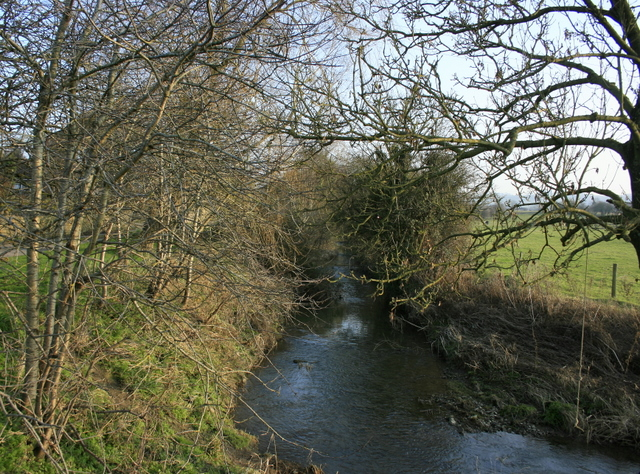 The River Boyd, near Doynton